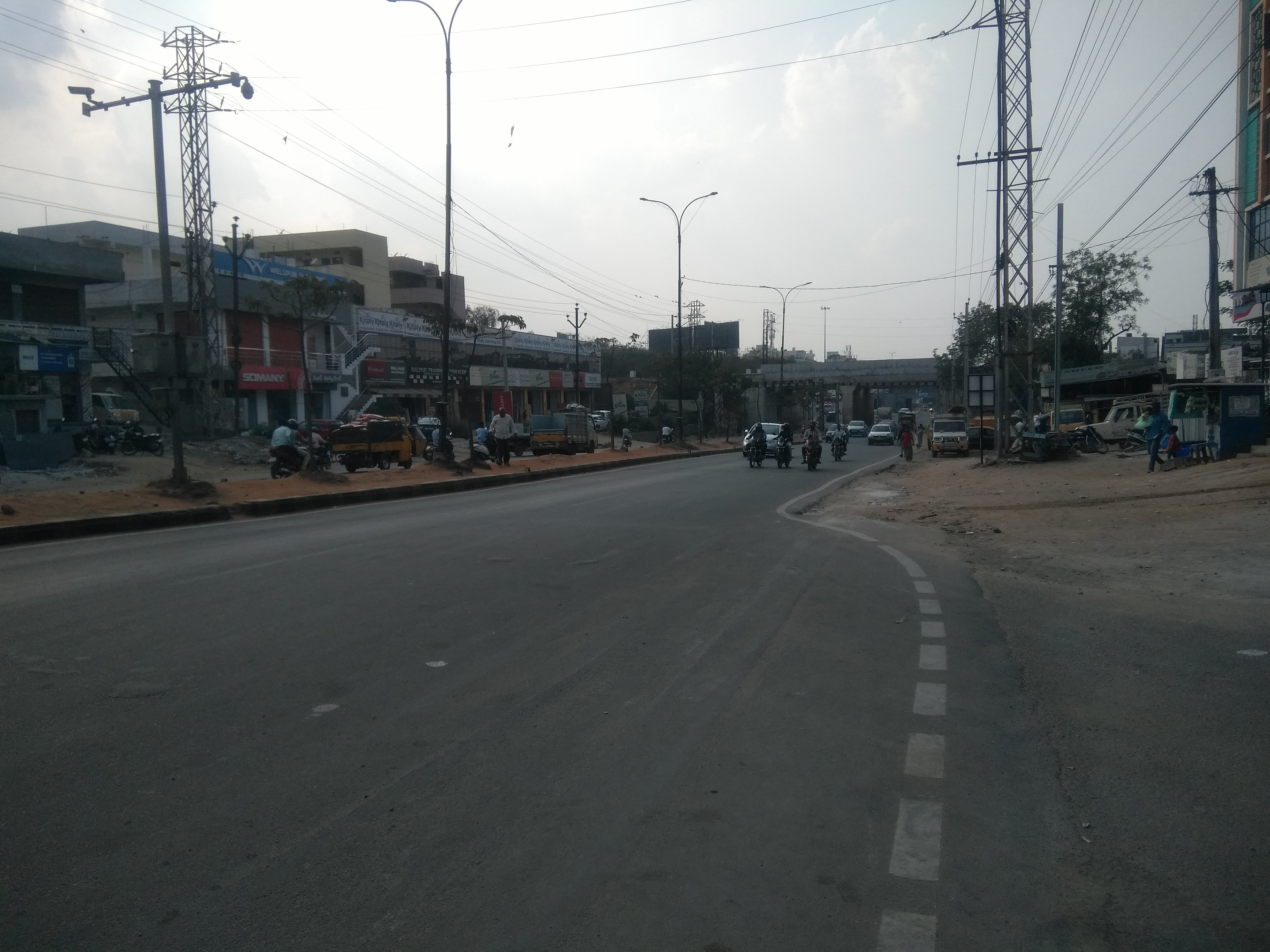 Shivarampally,Aramghar, Hyderabad